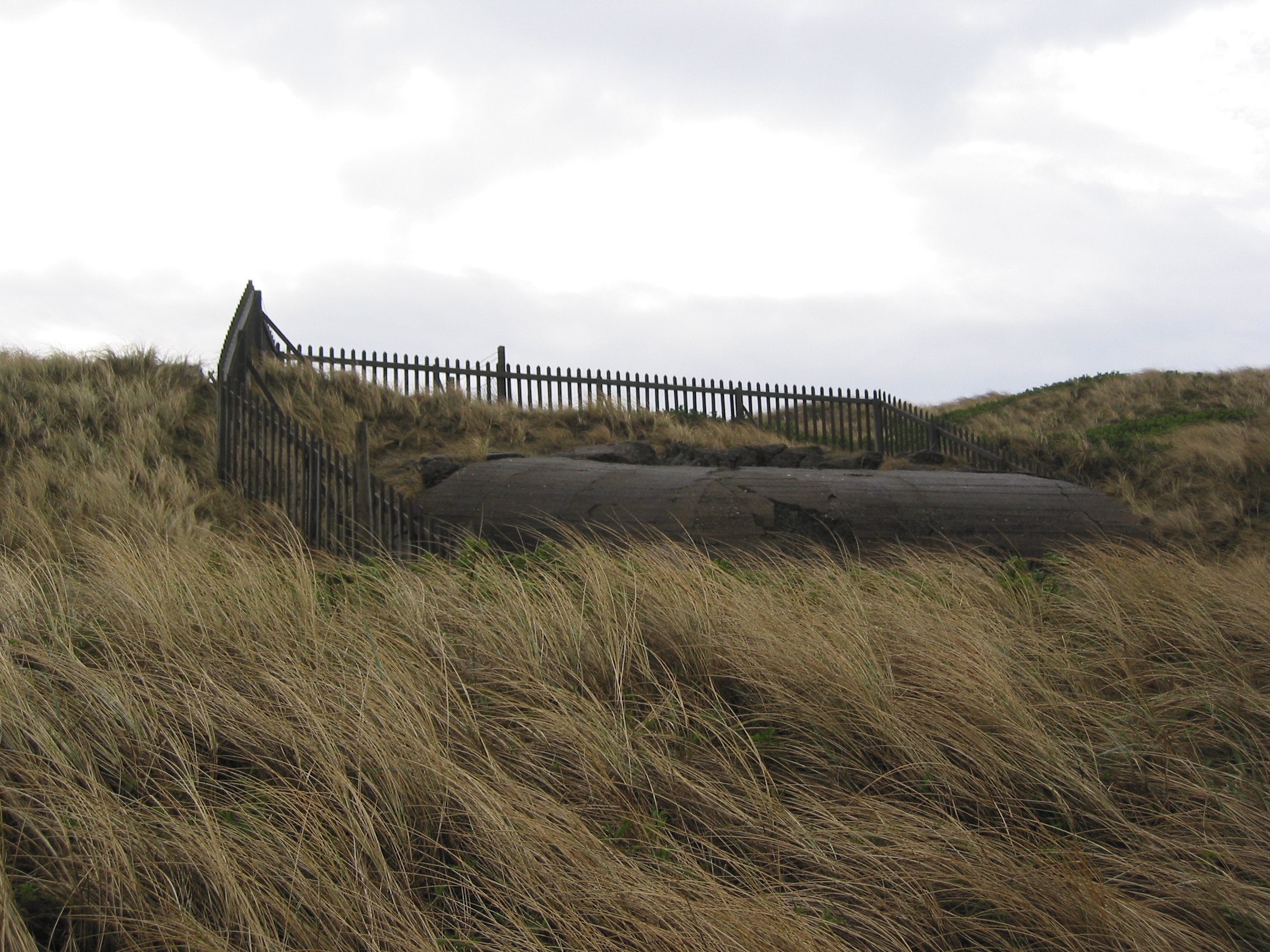 Remains of WW2 bunker near Westerland (closeup), Sylt, Germany.